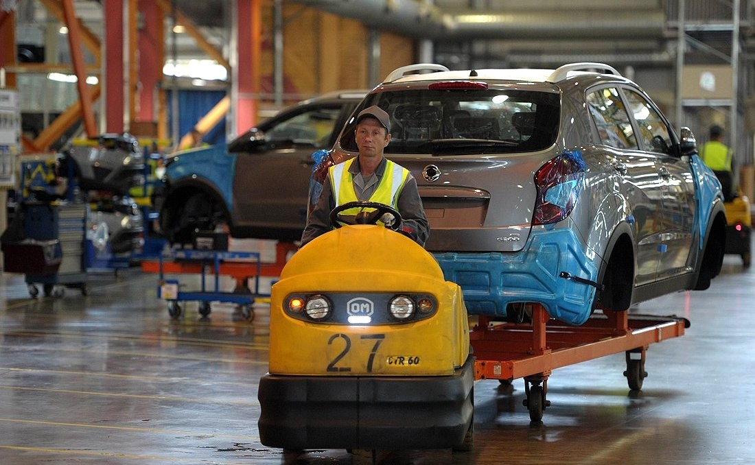 MAZDA SOLLERS Manufacturing Rus facility